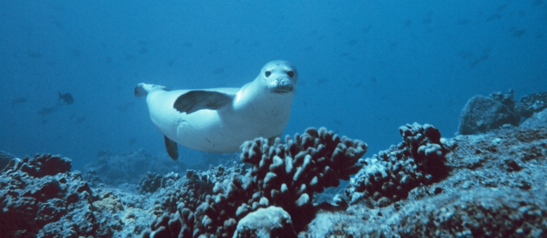 Hawaiian monk seal - Monachus schauinslandi. Hawaii, Laysan Island, Pacific Ocean.